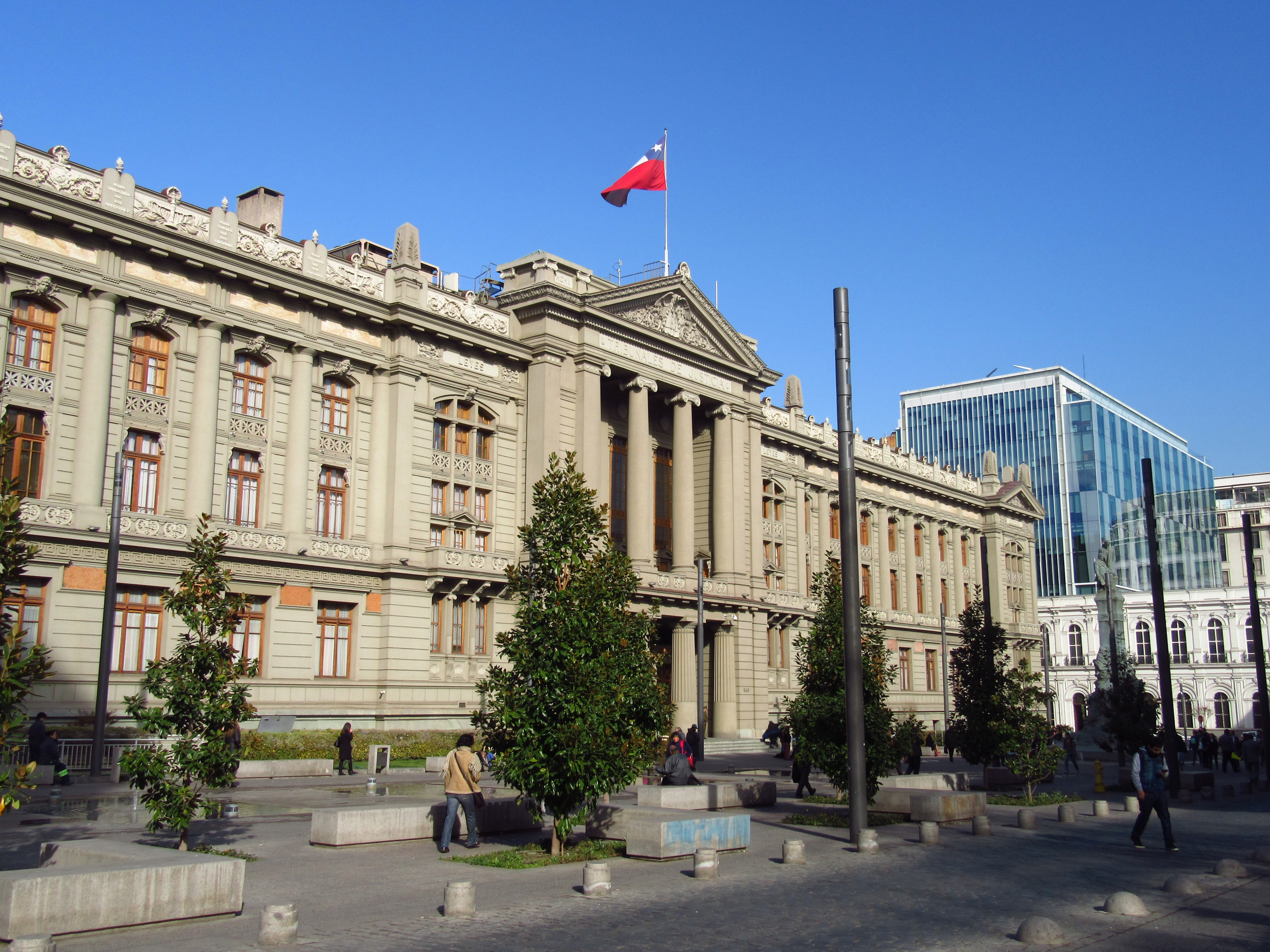 2017 in Santiago de Chile